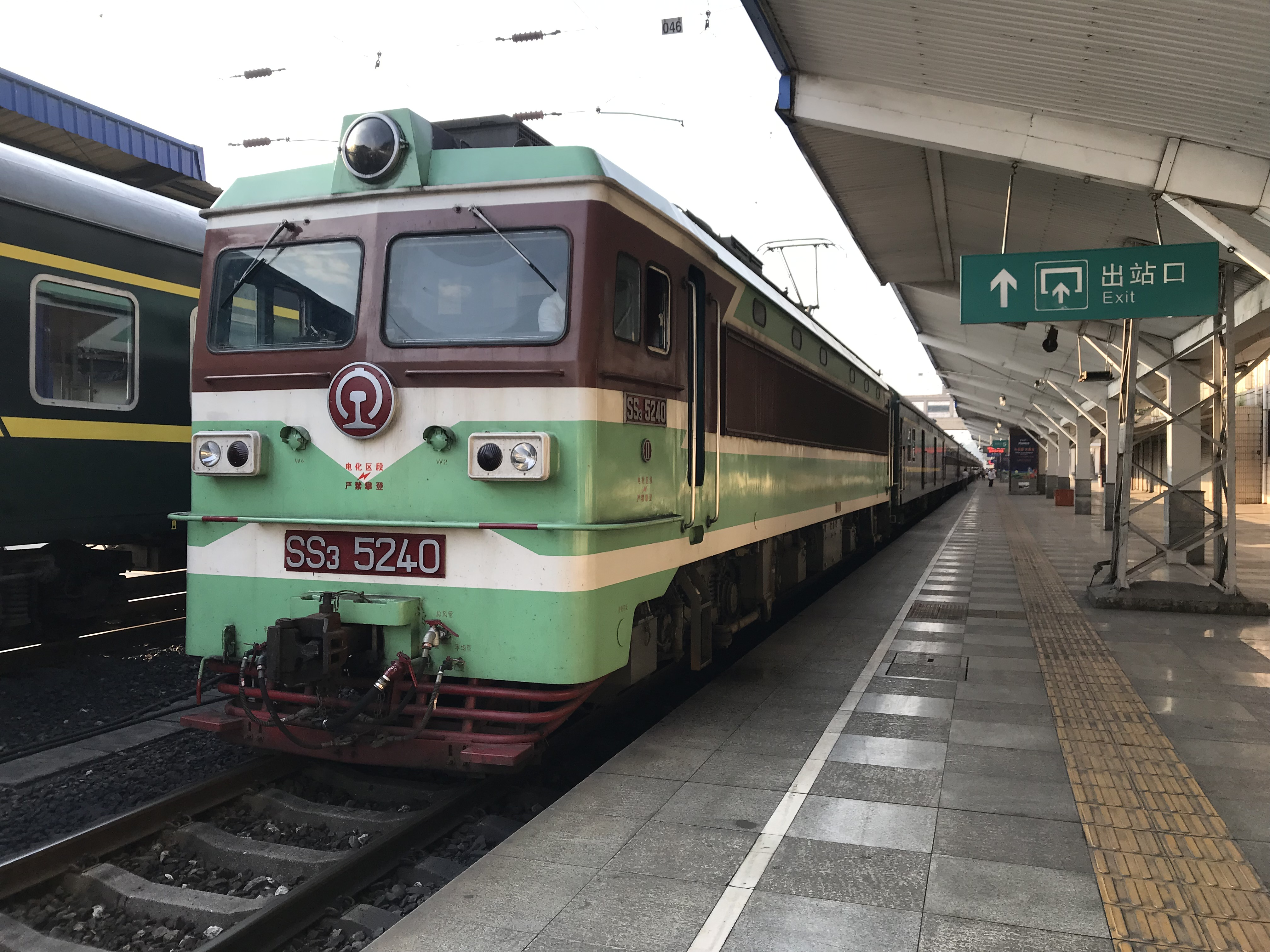 First time to really see and ride SS3...